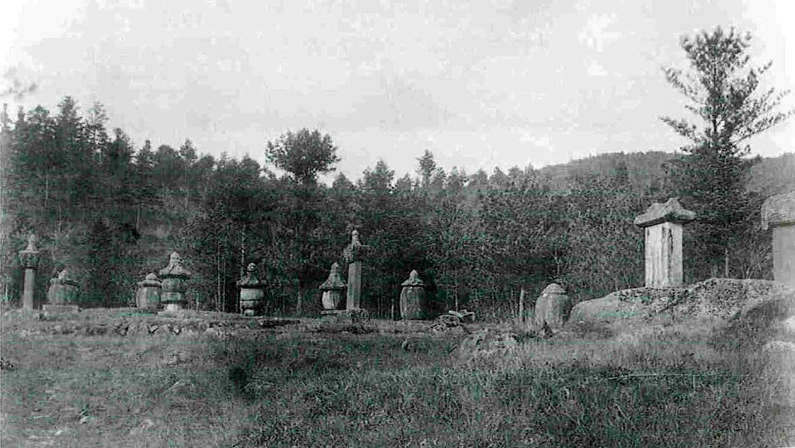 Stone Stupas at Yujeomsa temple in Kumgangsan, Korea